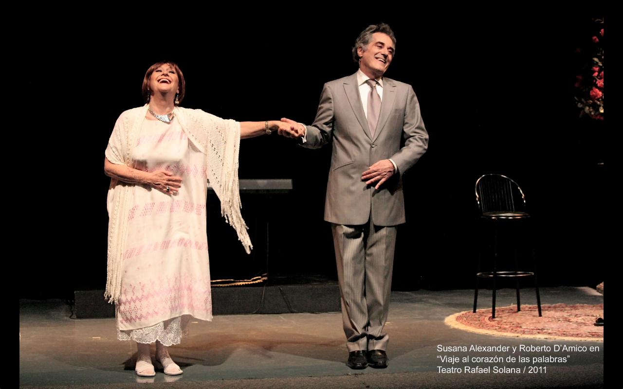 Espectáculo que se adentra en la poesía en español más sobresaliente de todos los tiempos.